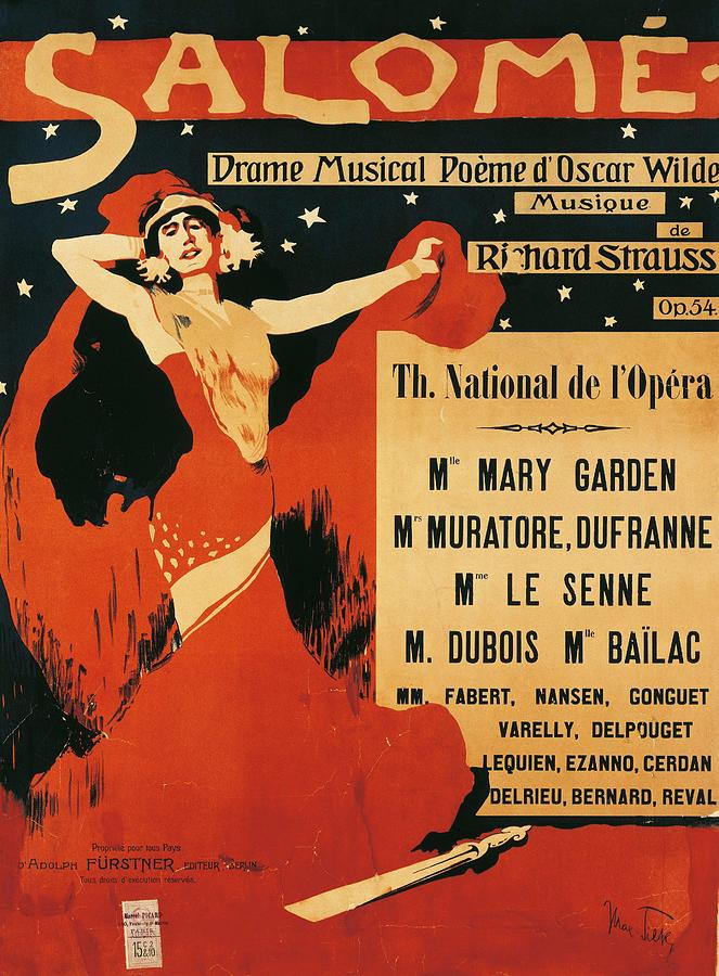 Max Tilke (1869-1942): Poster of the opera Salome by Richard Strauss